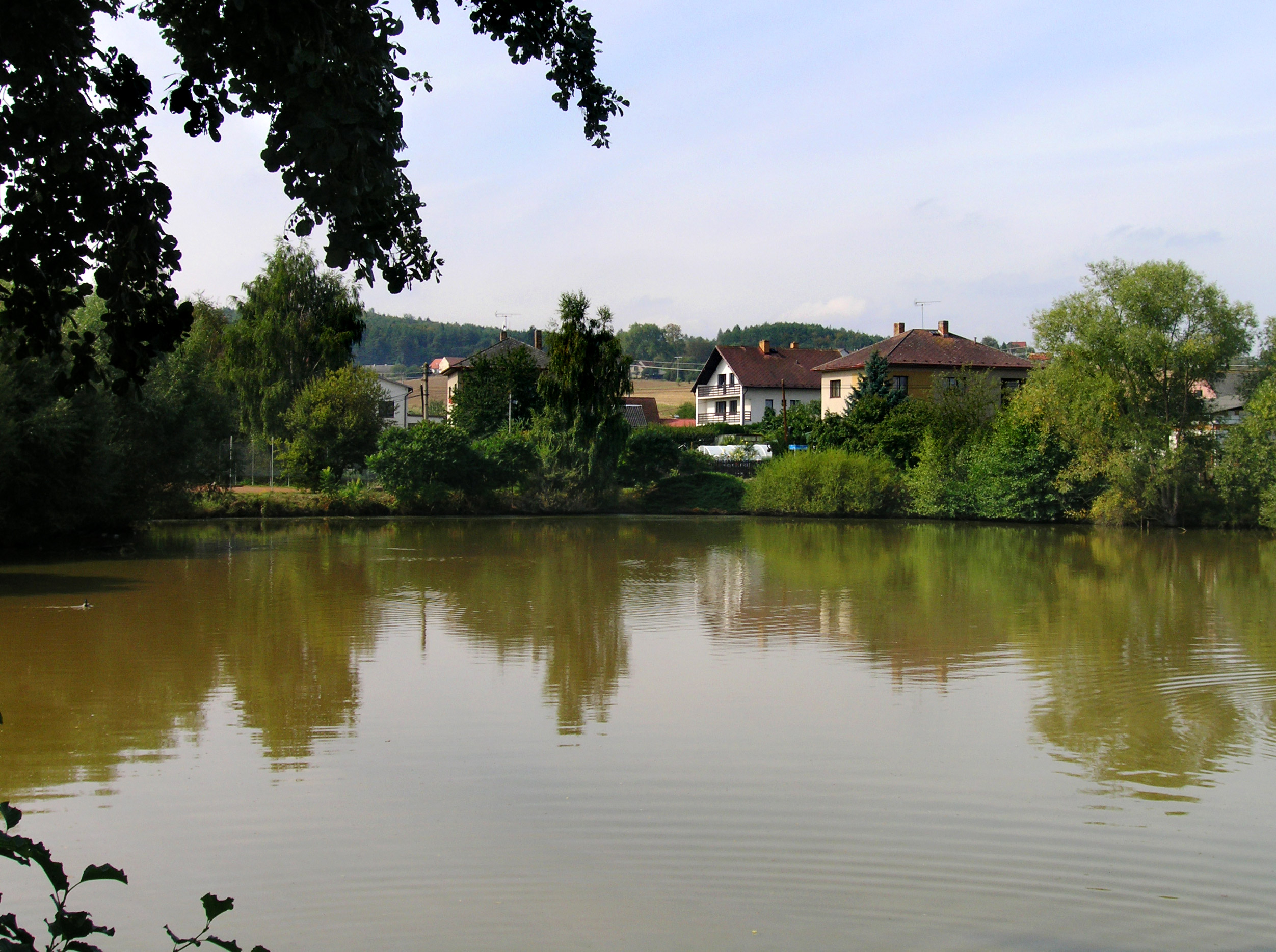 West pond in Břežany, part of Lešany village, Czech Republic